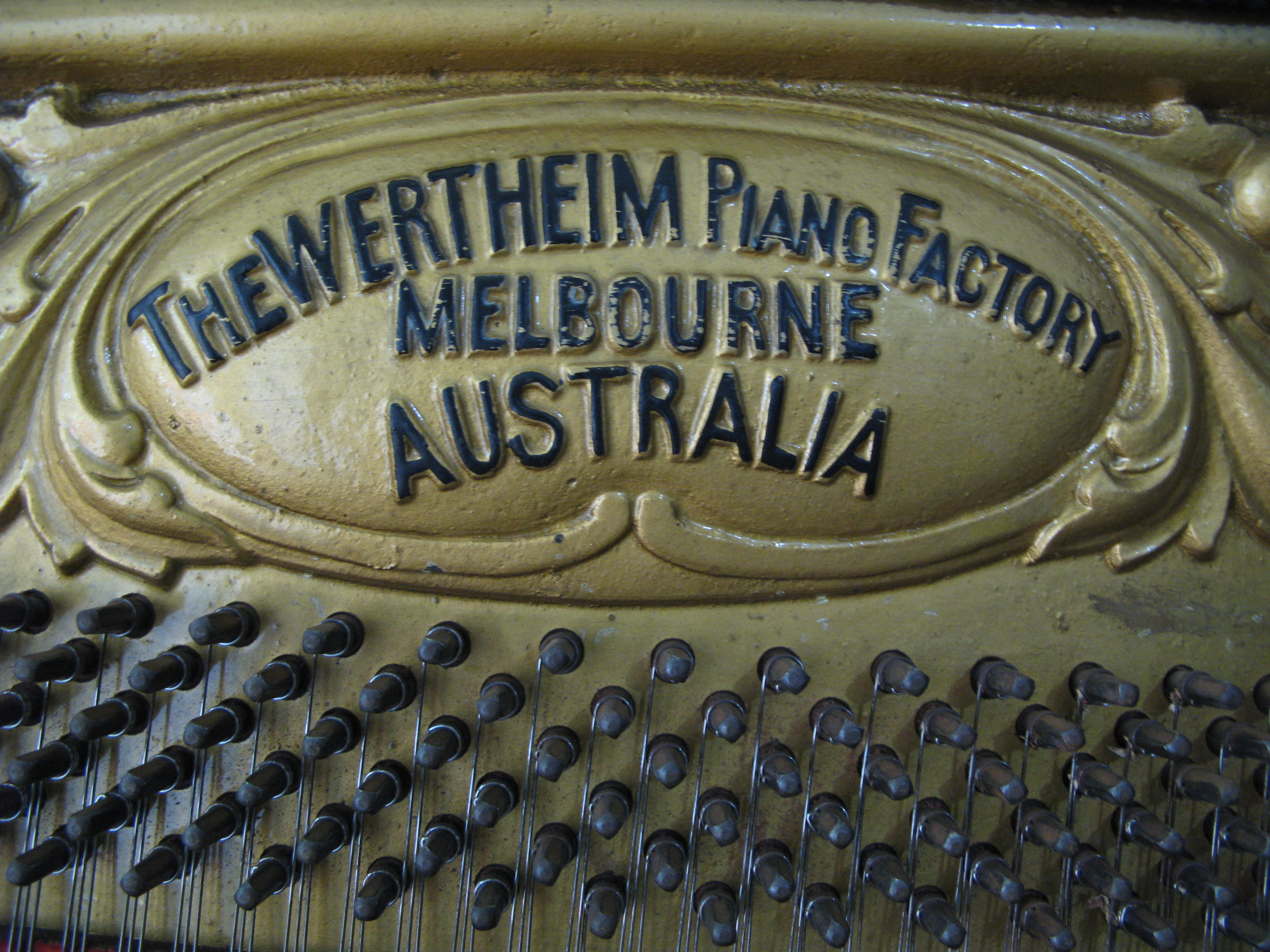 Logo on the casting of a Wertheim upright piano.